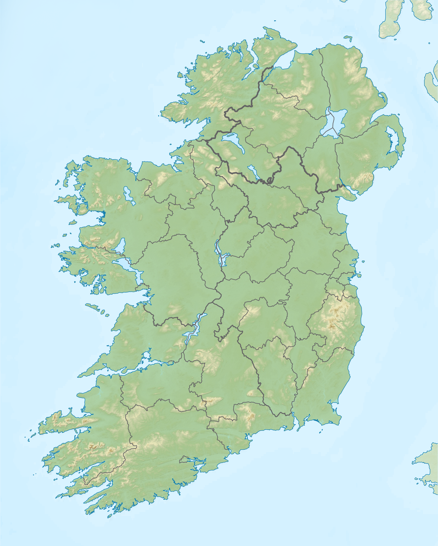 Relief map of Ireland Equirectangular map projection on WGS 84 datum, with N/S stretched 170% Geographic limits: West: 11.0° W East: 5.0° W North: 55.6° N South: 51.2° N